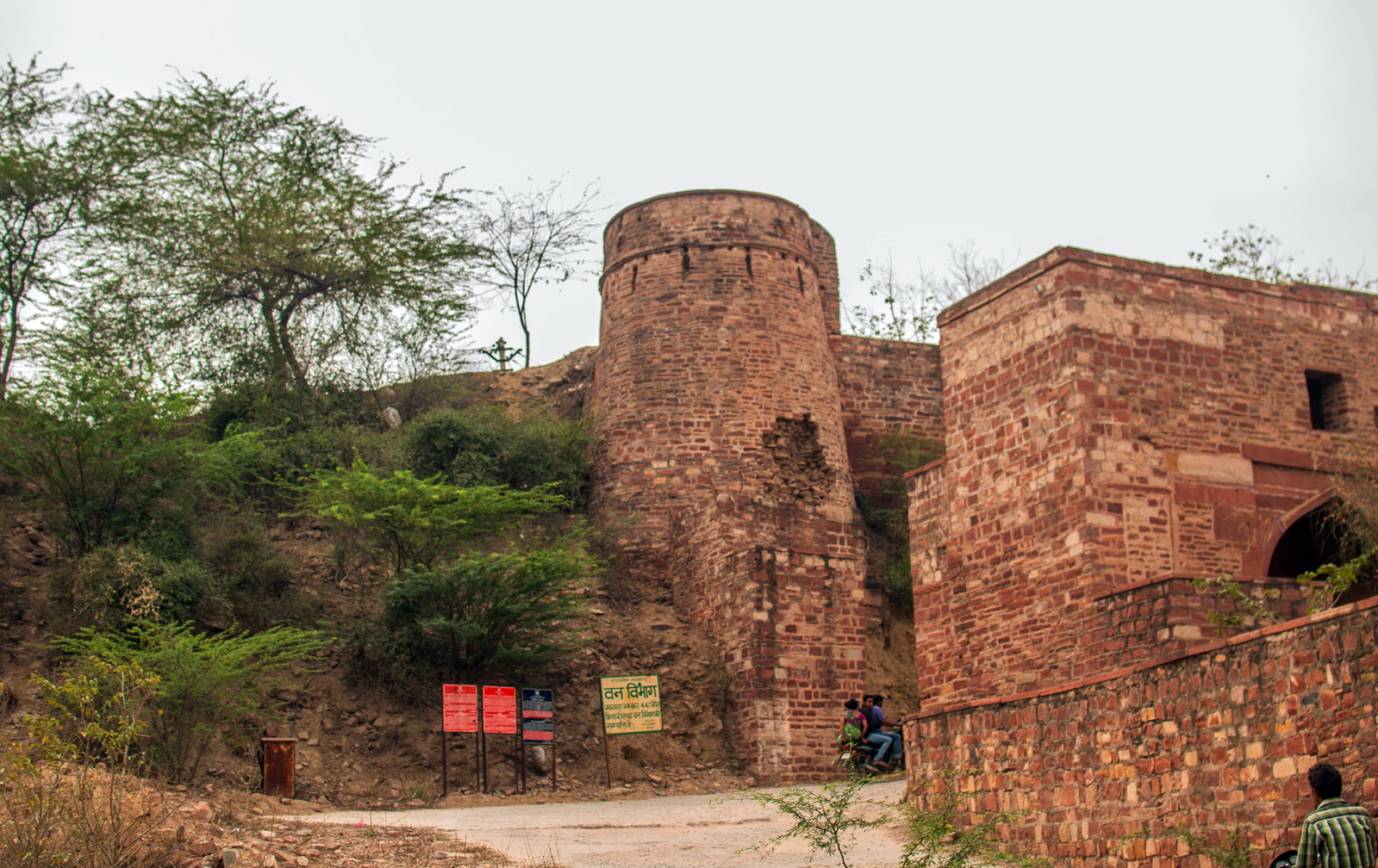 Shergarh Fort in Dholpur city, Rajasthan state, India